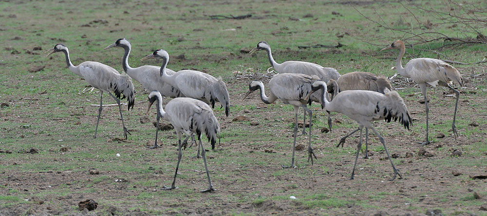 Common Cranes (Grus grus) at Keoladeo National Park, Bharatpur, Rajasthan, India.